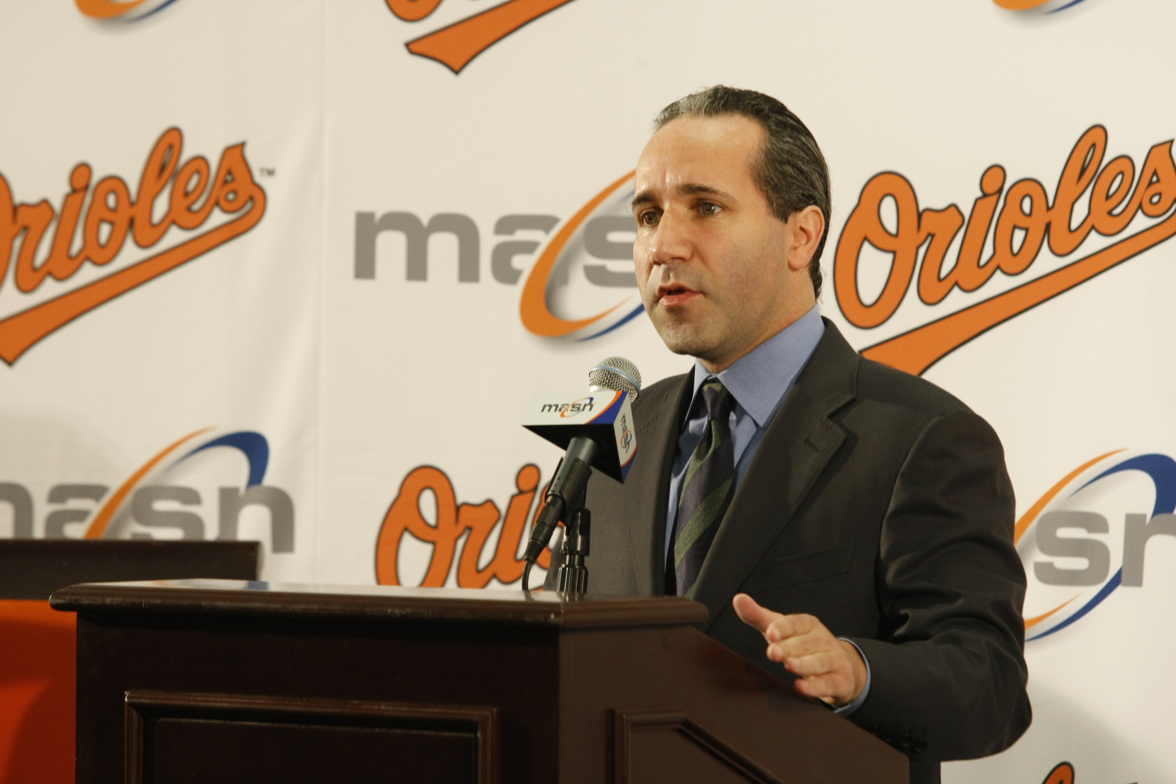 July, 2009 -- John Angelos, Executive Vice President of the Baltimore Orioles introduces a new partnership between the Orioles with Baltimore City Schools to support education initiatives for local youth